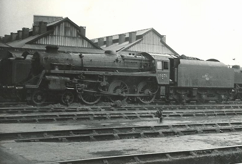 BR Riddles Standard Class "4MT" 4-6-0 No.75076 with double chimney and BR1B tender at Nine Elms shed, 04/65. Scanned photograph taken with an Halina 35X Super camera.